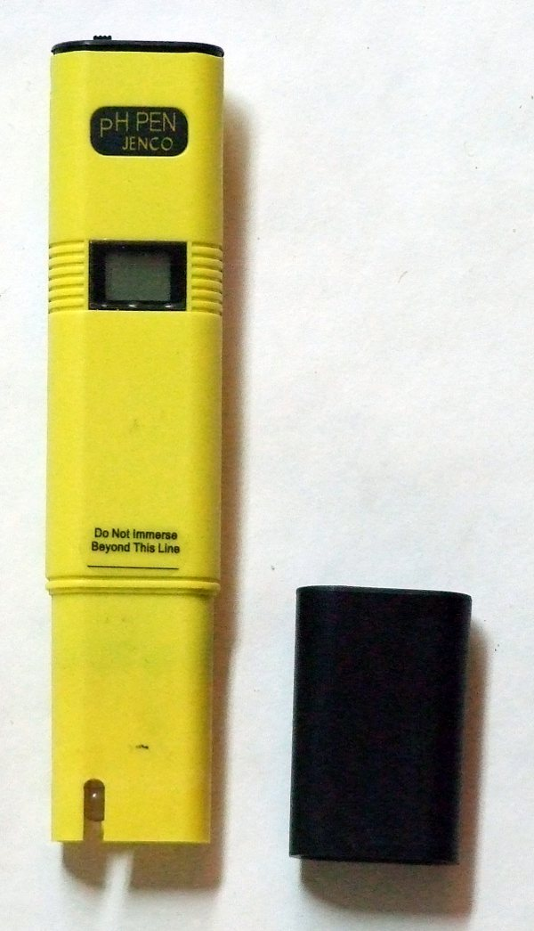 A relatively cheap electronic pH meter.